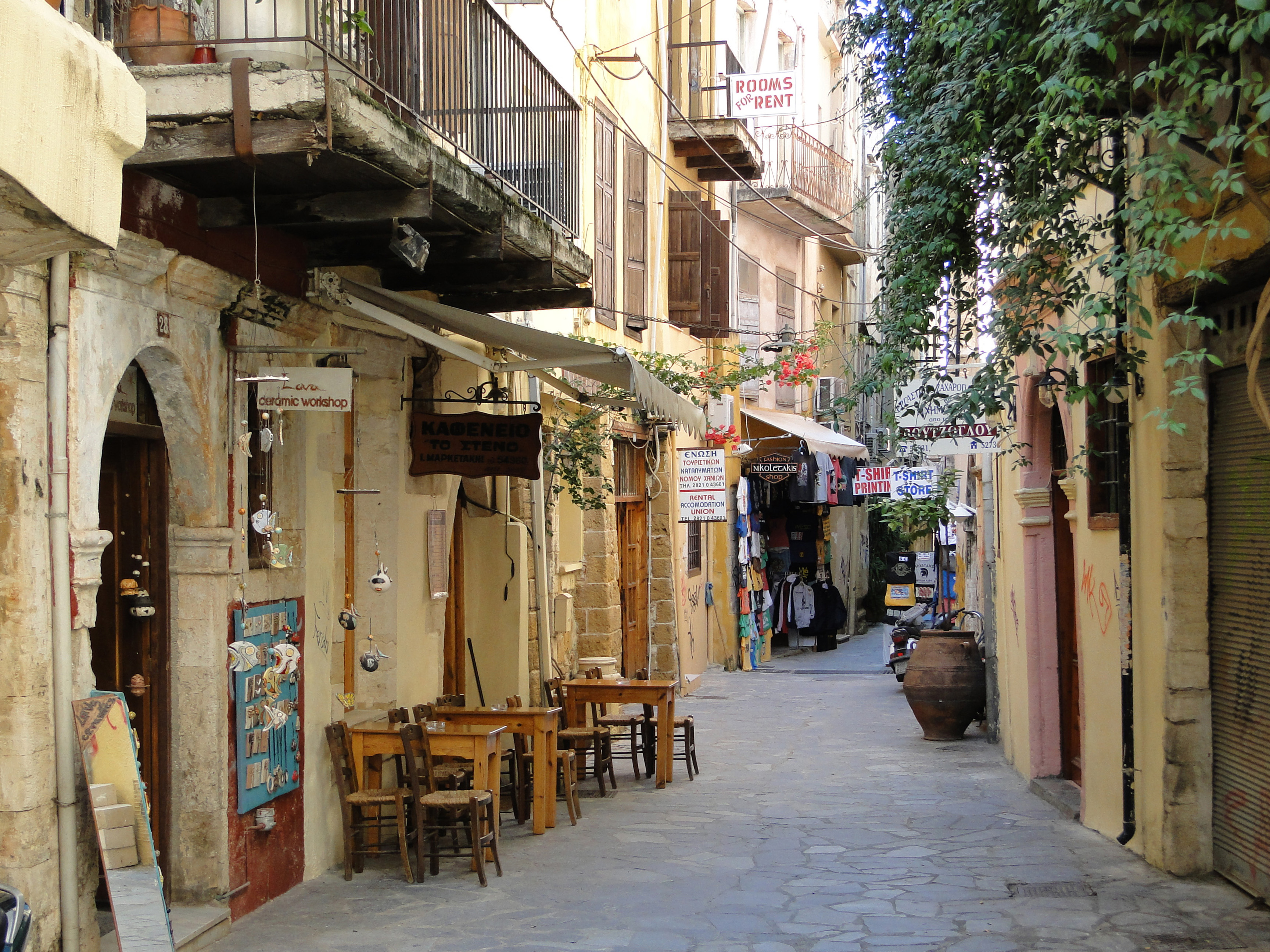 A street in Chania, Crete, Greece